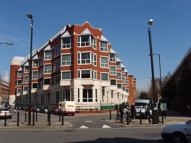 Family Record Centre, Myddelton Street The FRC houses the Registrar General's indexes to birth, marriage and death certificates on the ground floor and the National Archives copies of census returns from 1841 to 1901 on the first floor. This arrangement, convenient for genealogists, is scheduled to close partly because many of the records and indexes are becoming available on the internet. View from the end of Exmouth Market.